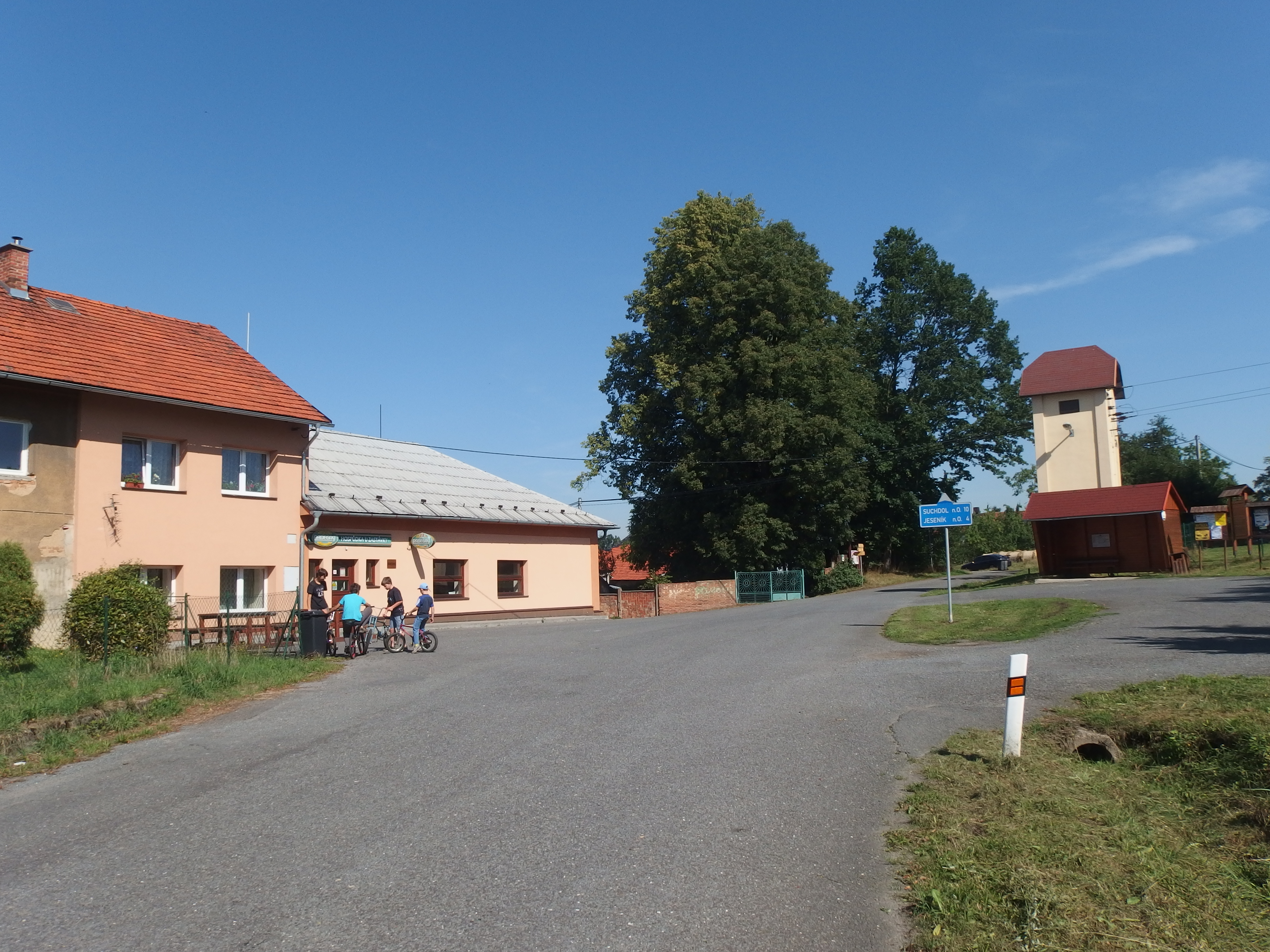 Jeseník nad Odrou, Nový Jičín District, Czech Republic, part Blahutovice.